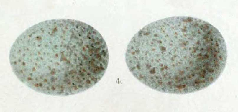 « Oxylophus glandarius » = Clamator glandarius (Great spotted cuckoo) - eggs